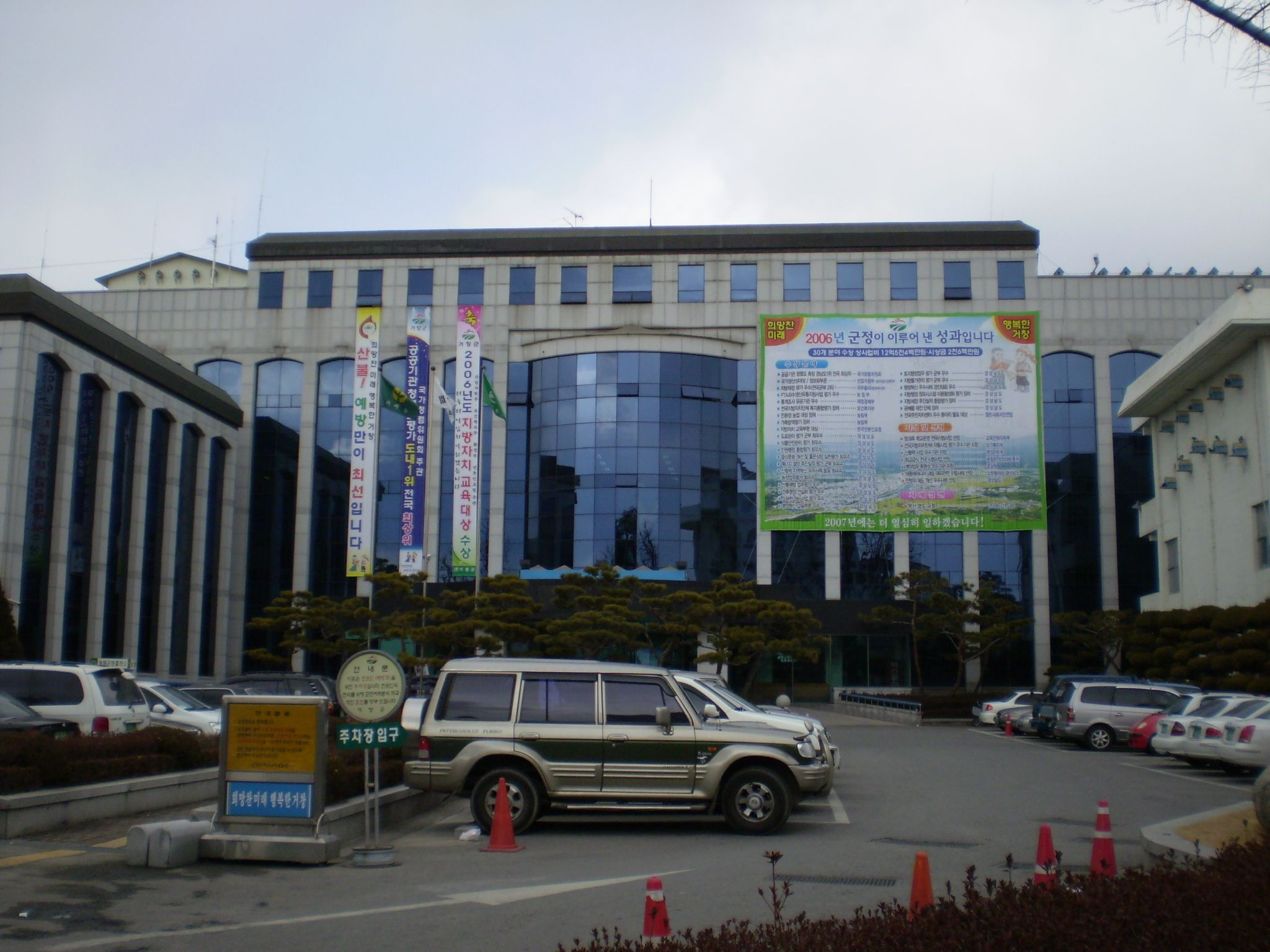 County government building (군청) in Geochang, Gyeongsangnam-do, South Korea.